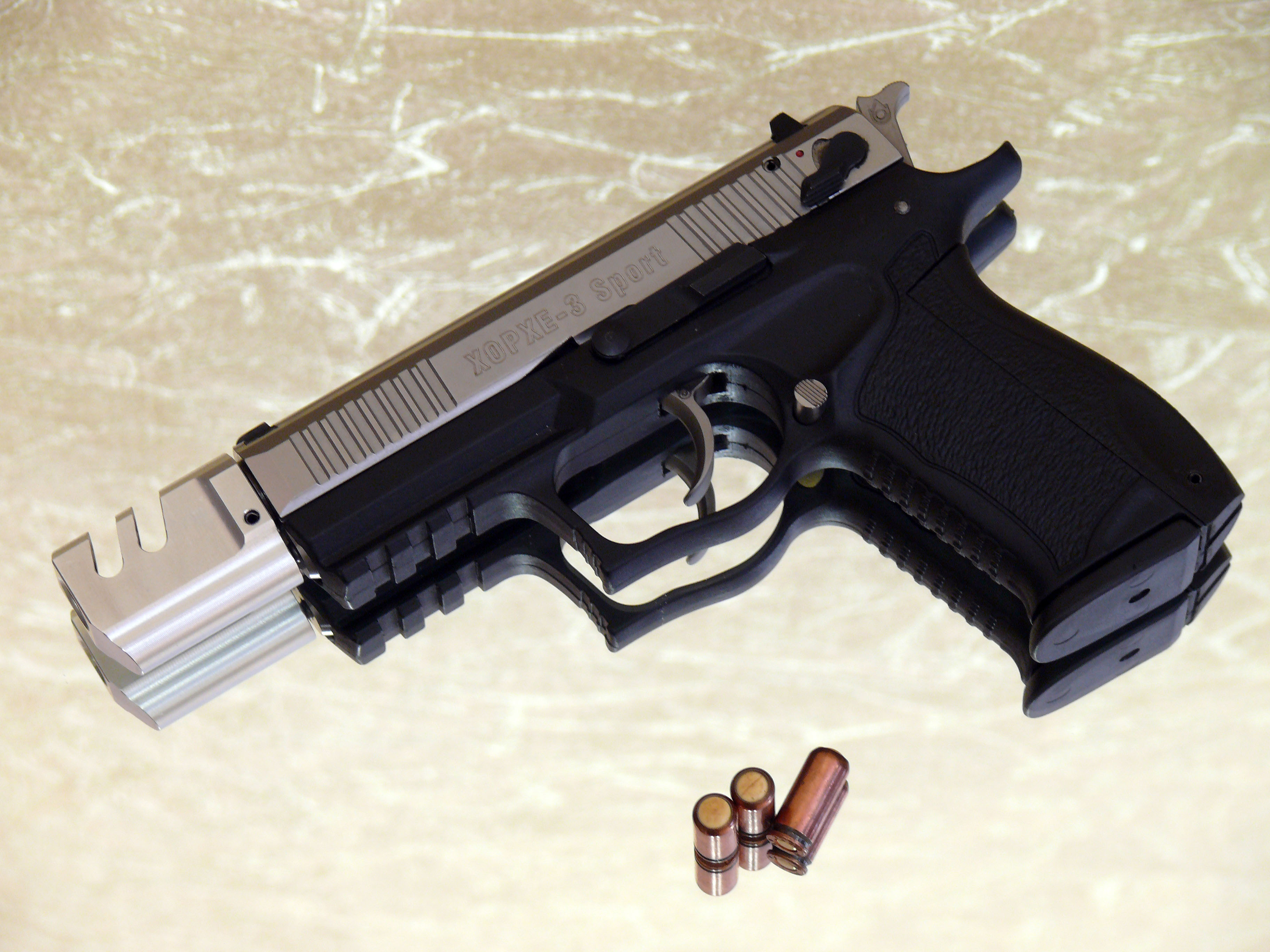 Stainless pistol Horhe-3 Sport